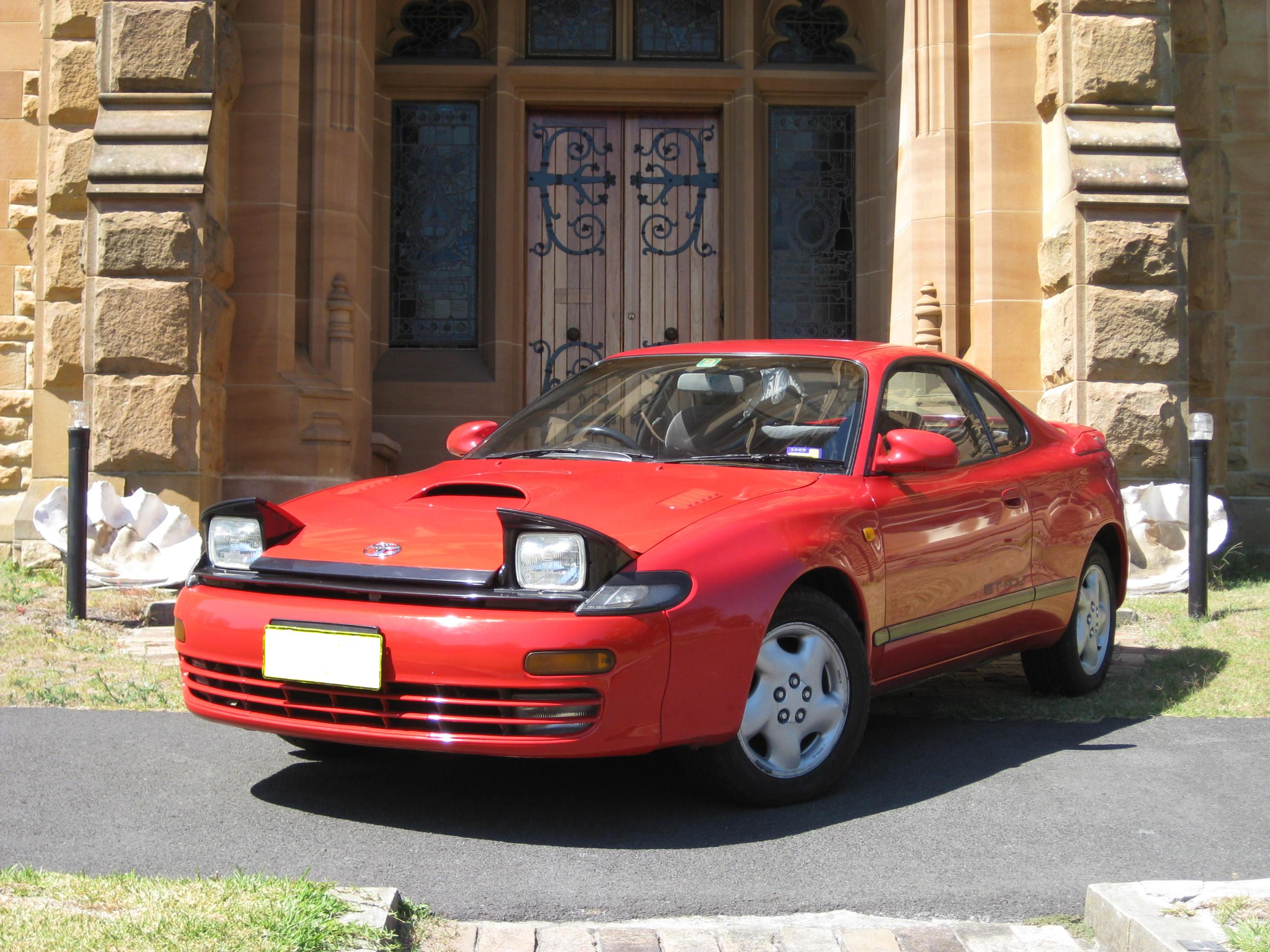 1990 Toyota Celica GT-Four A (ST185) shown in Super Red (colour code 3E5).